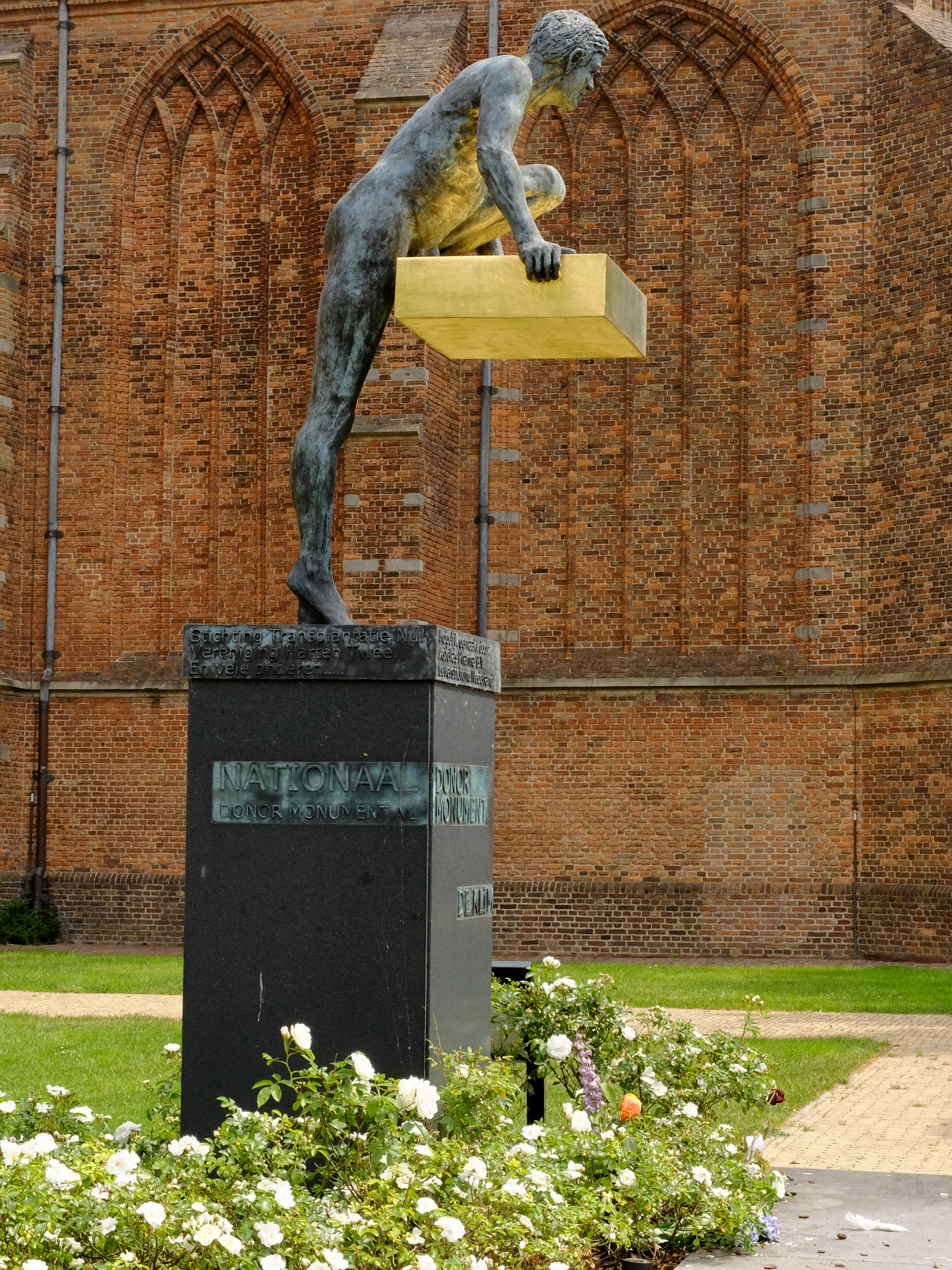 "National Donor Monument" in Naarden.